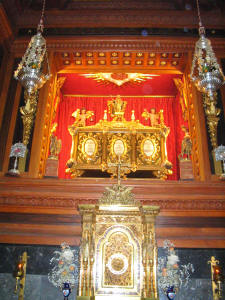 Saint John of Avila's tomb at Encarnacion Church in Montilla (Andalusia, Spain)